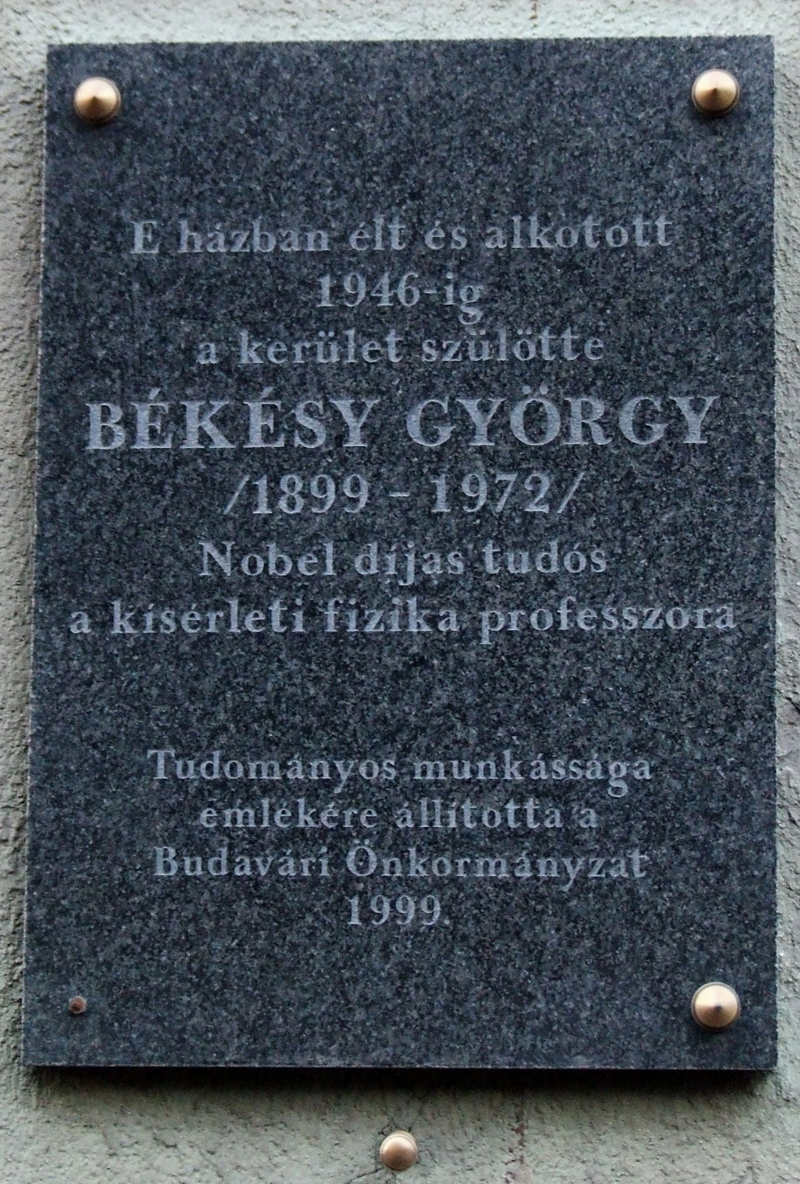 György Békésy commemorative plaque in Budapest District I, Fő Street No 19